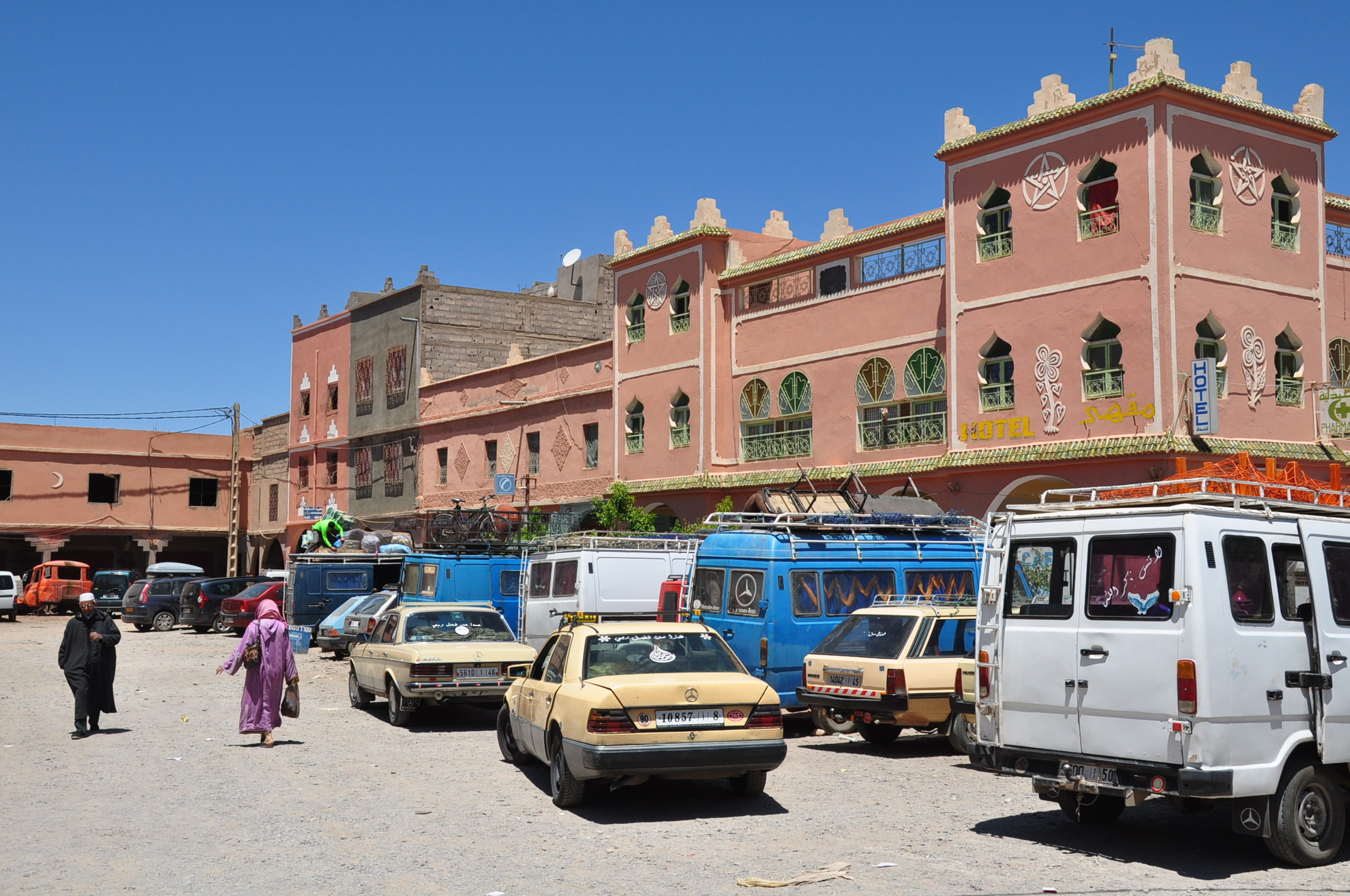 Scene in central Skoura (Morocco, Souss-Massa-Draa region, Ouarzazate Province). The yellow cars are taxis.